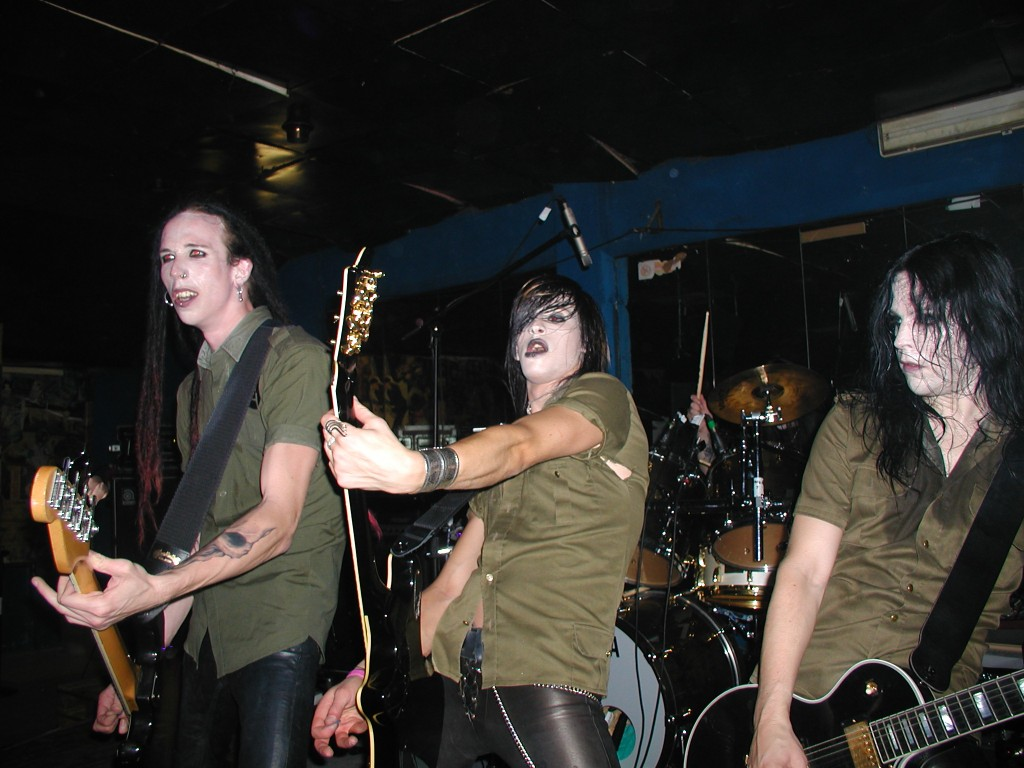 Live at Baraonda 6/10/2006. Concert review at the following Ver Sacrum page: .